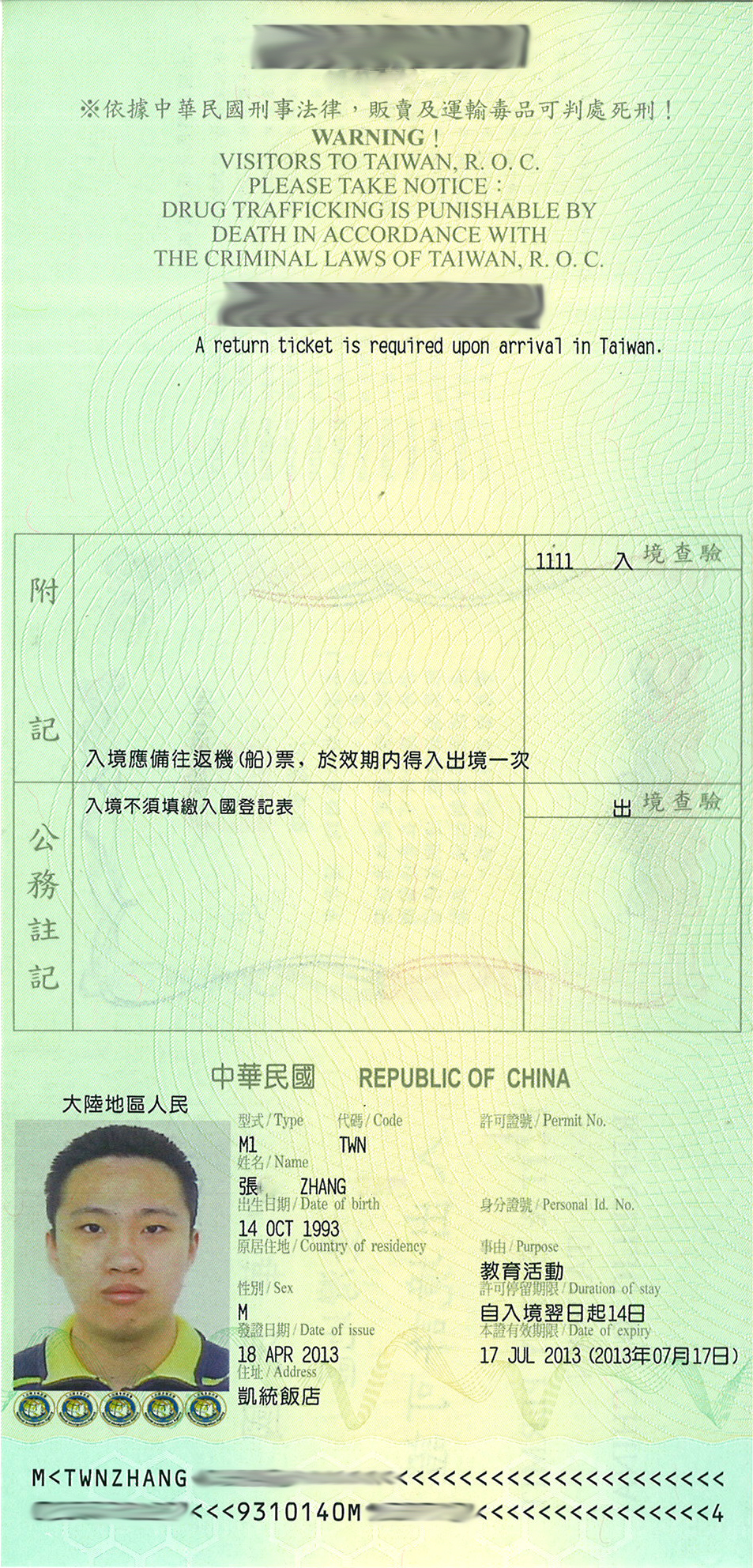 A Republic of China (Taiwan) Visa for China mainland residents (Purpose: Education Events).